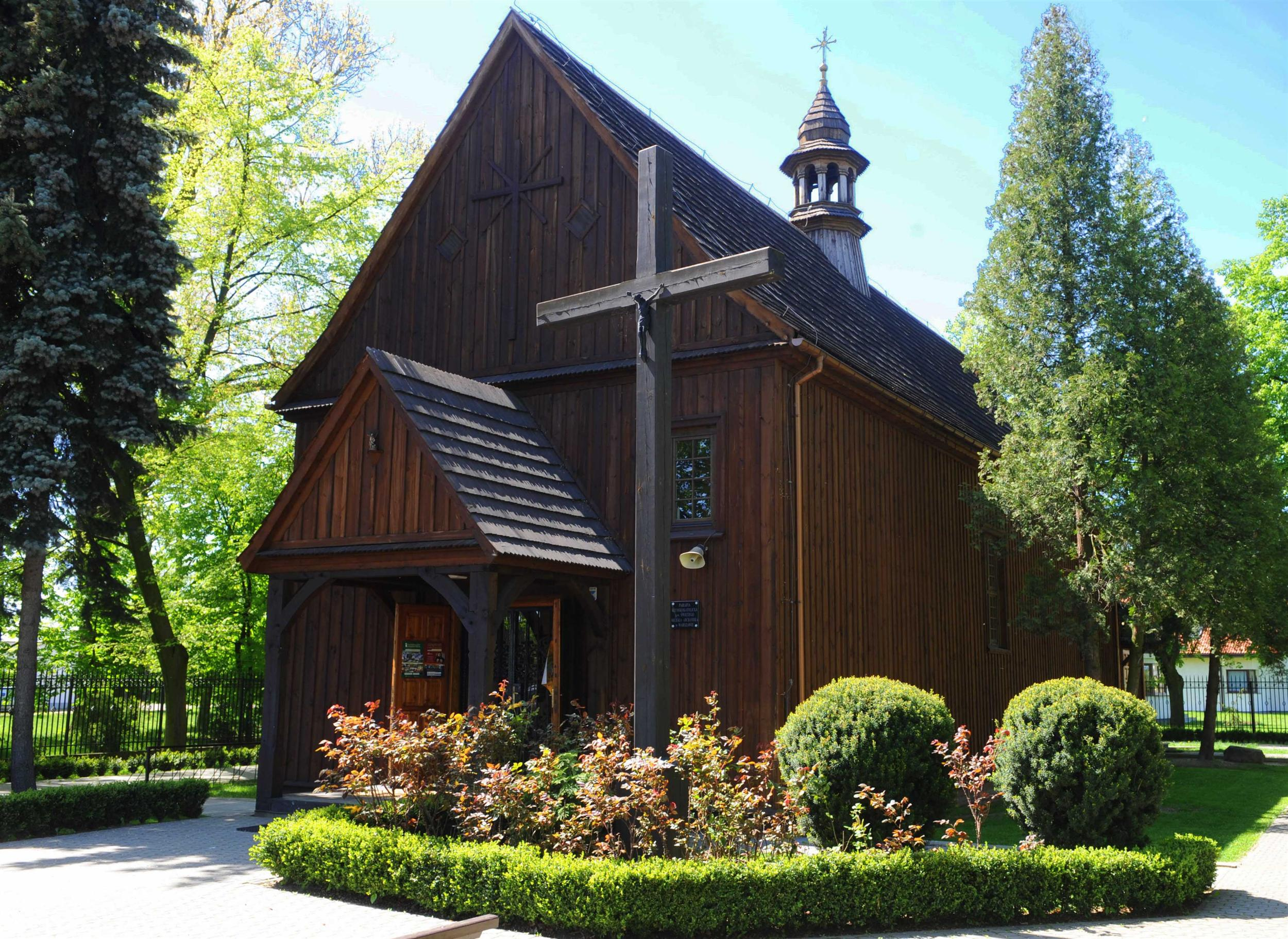 The church of St Michael Archangel, Warsaw